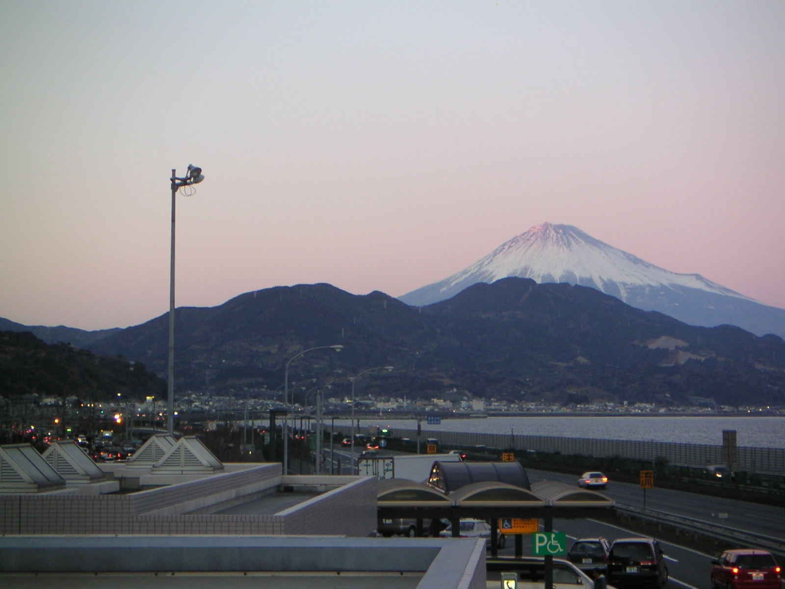 Mt.fuji seen from Yui P.A,Tomei Expressway 東名高速道路由比PAから見た富士山